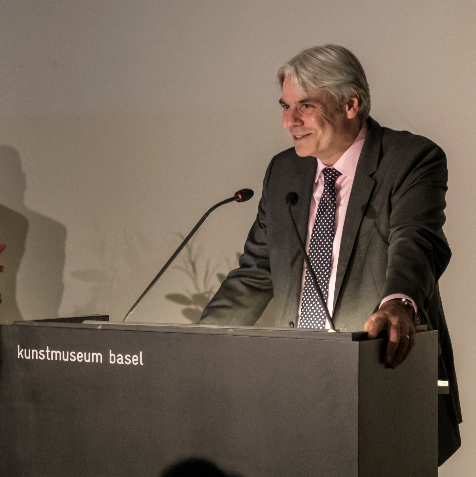 Porträtbild Lukas Ott 2019